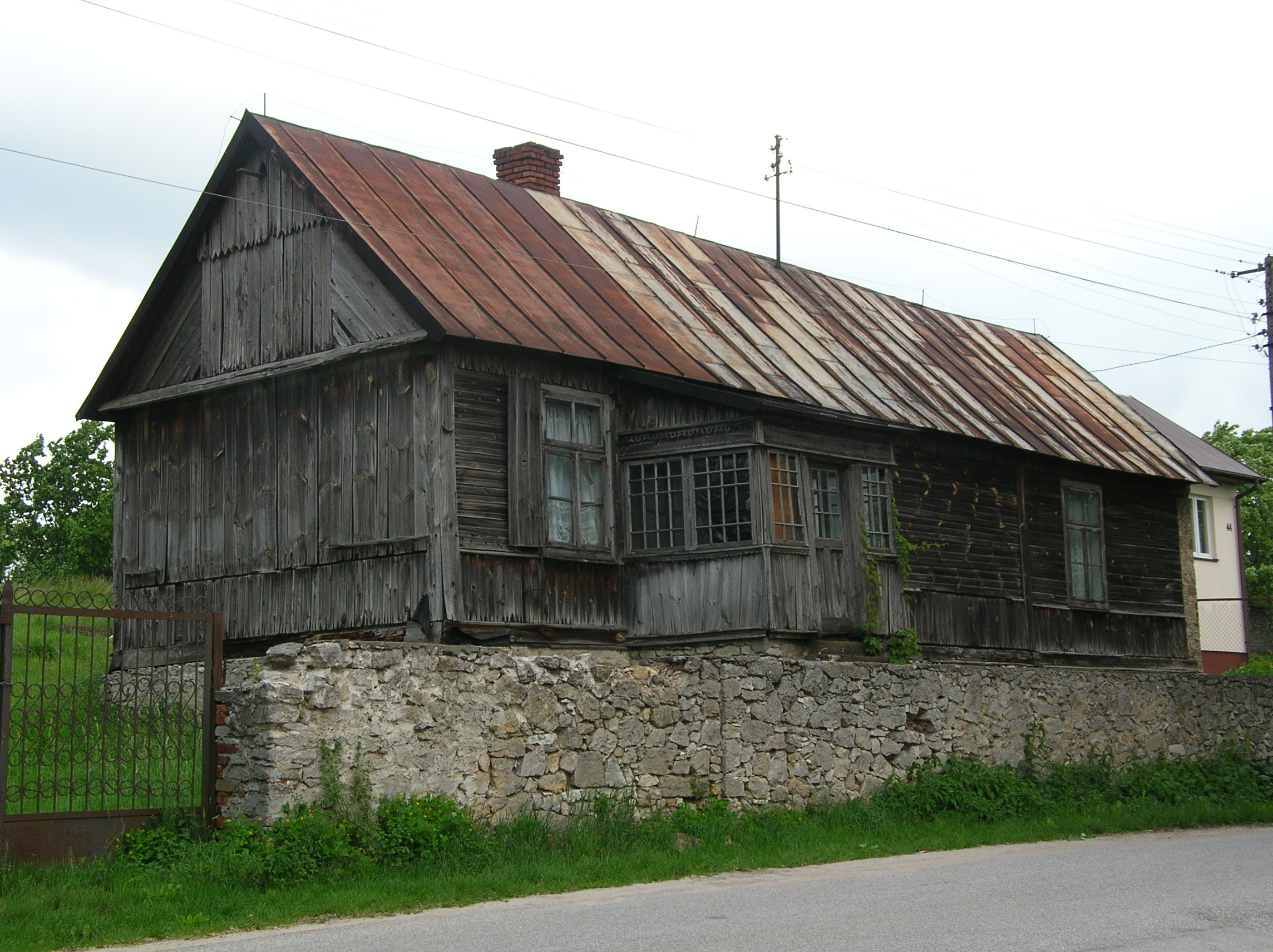 Cottage in Starochęciny